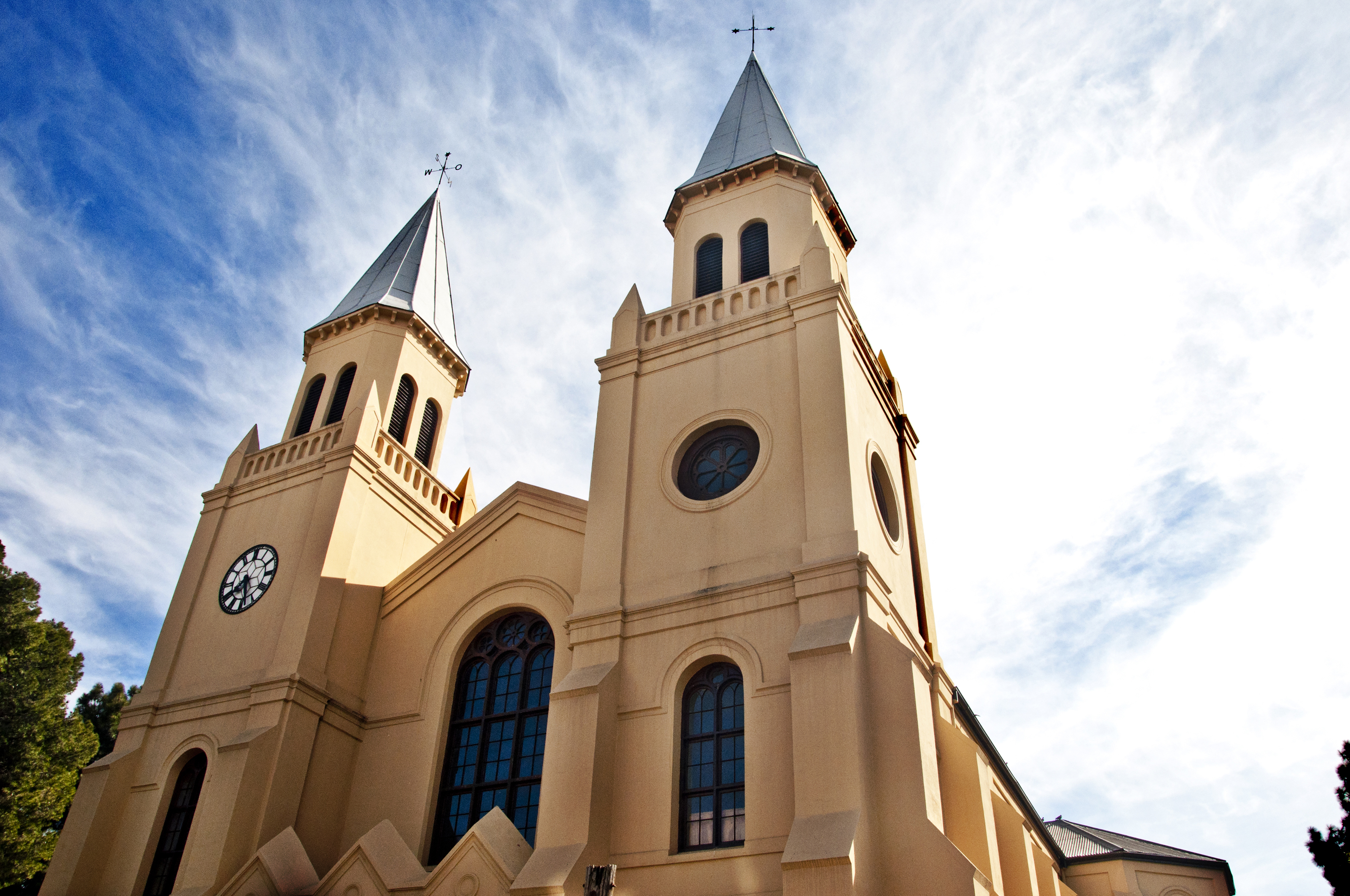 This media shows a South African Protected Site with SAHRA file reference 9/2/302/0010.